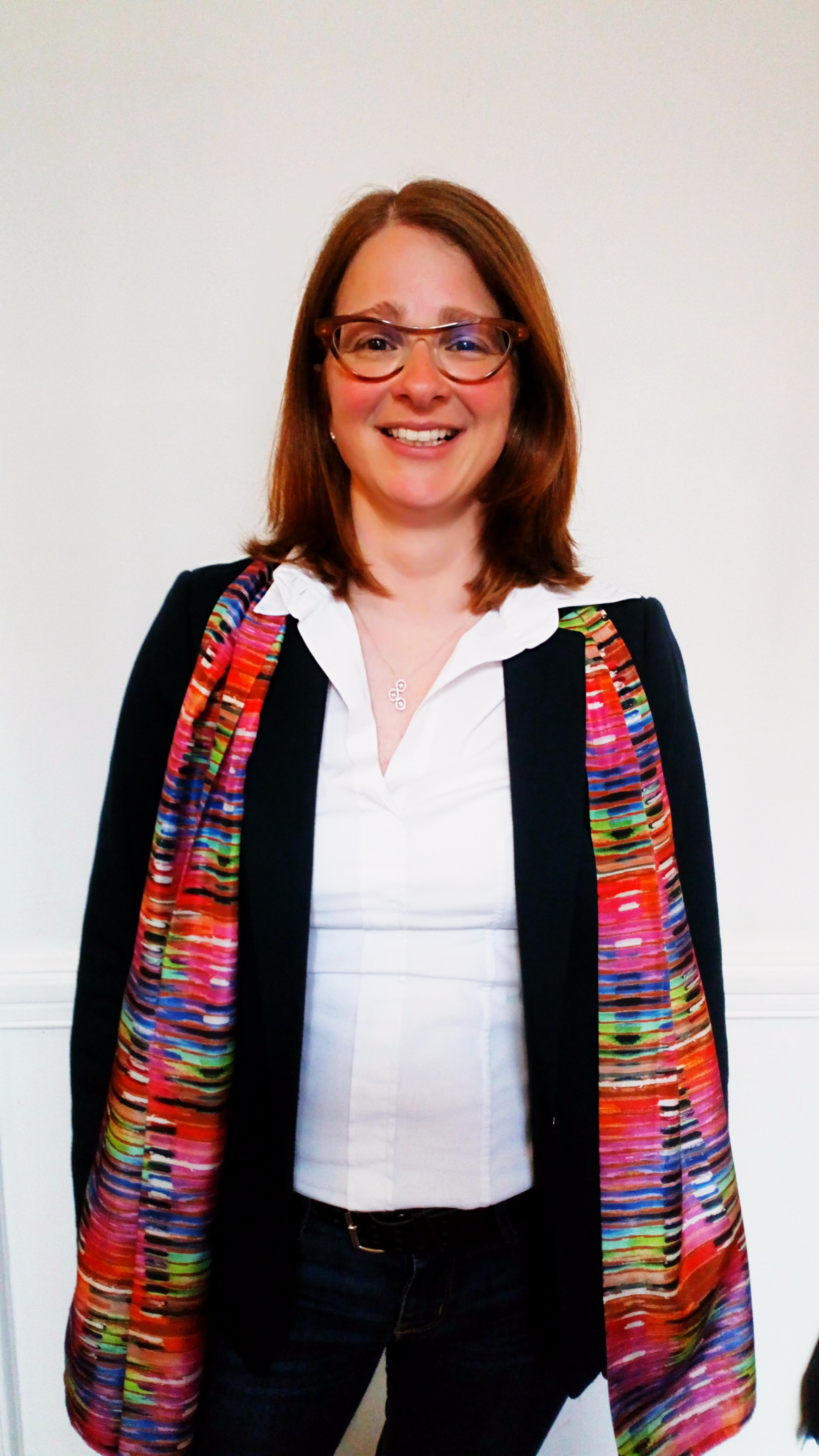 Professor Lieve Van Hoof, May 2019